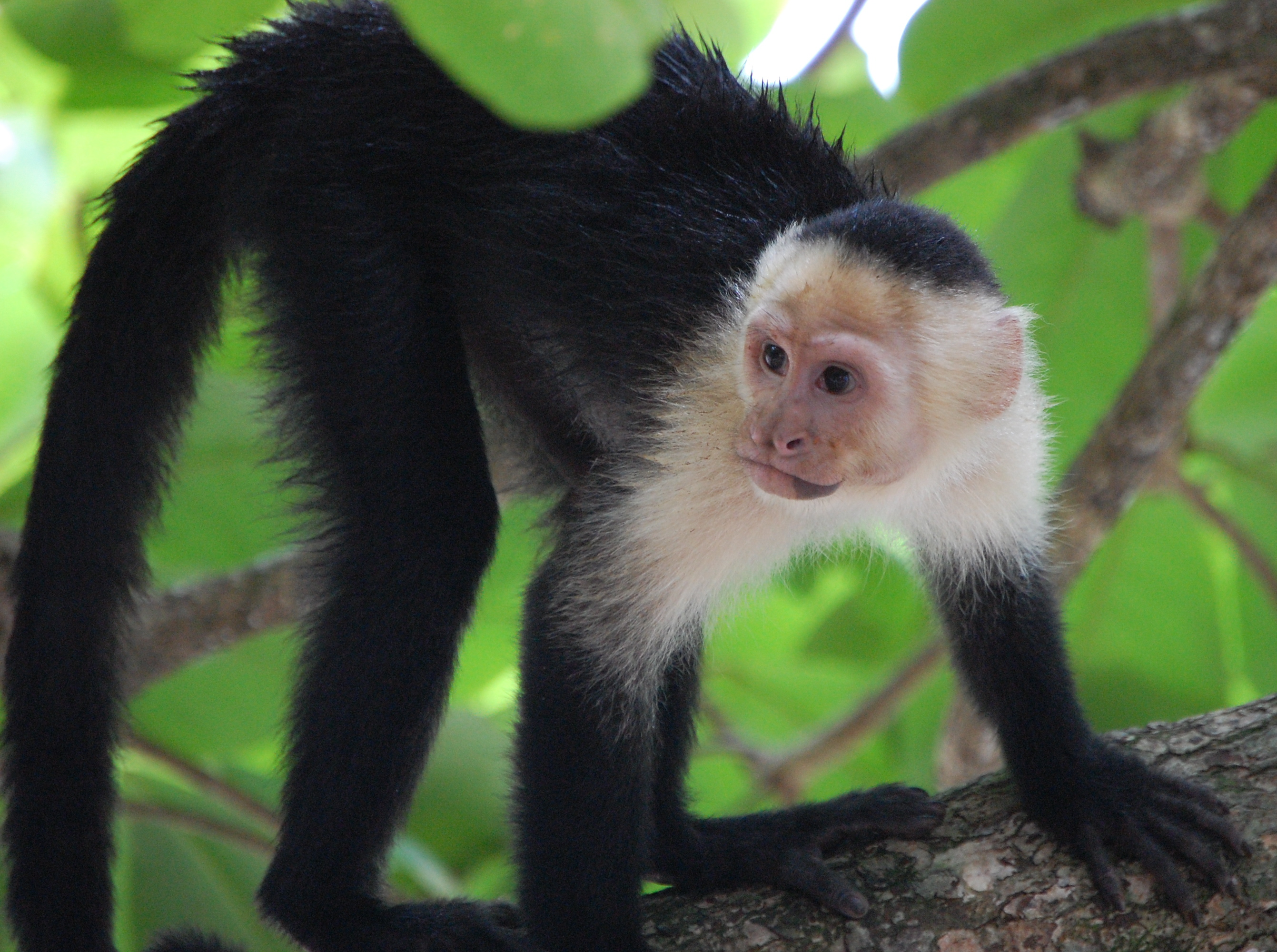 White-faced Capuchin monkey (Cebus capucinus) in Manuel Antonio National Park, Costa Rica.